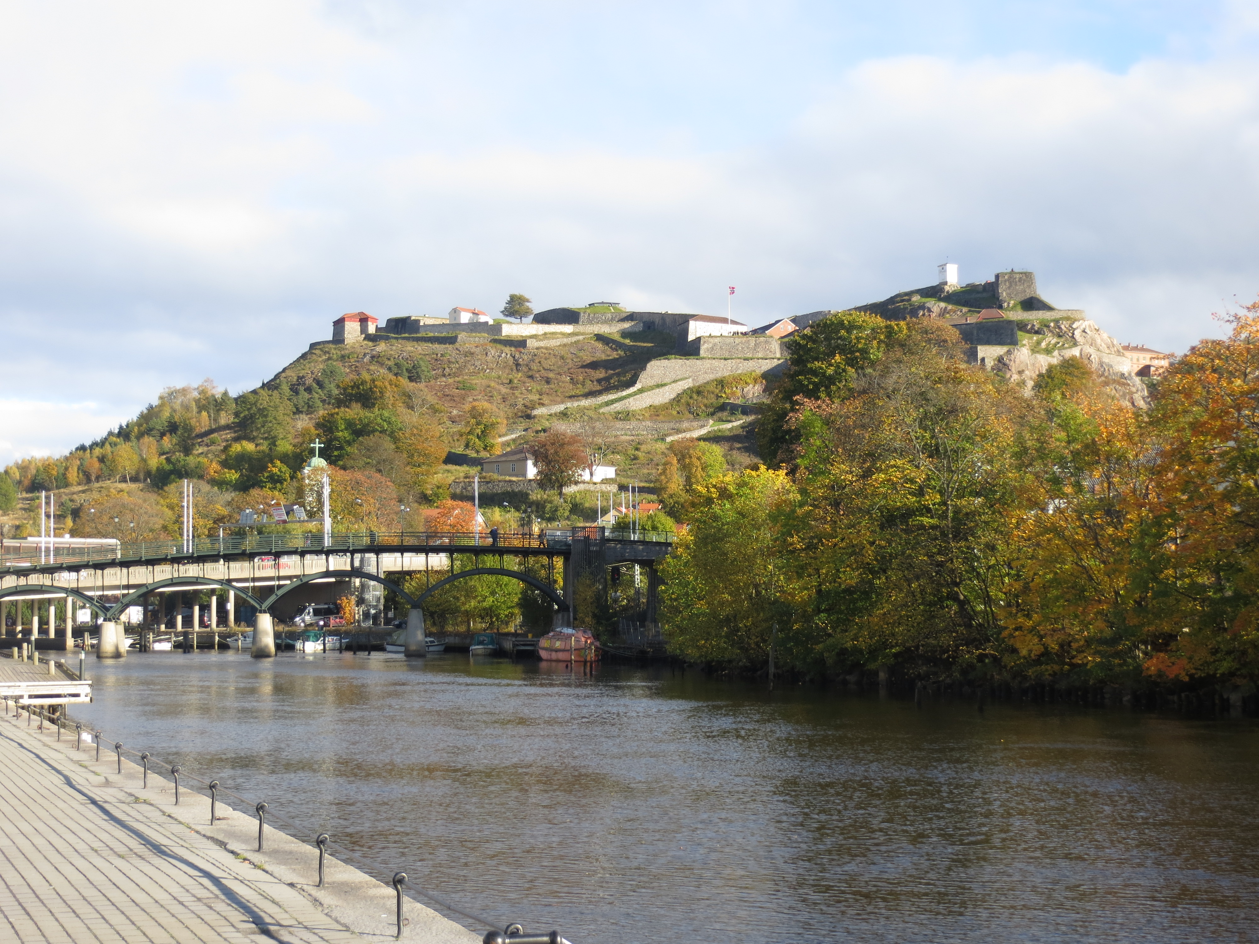 Photo from central Halden, Østold county. The Tista river ends in this city before entering the ocean in iddefjorden.